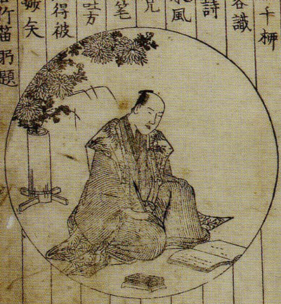 Portrait of Namiki Sōsuke by unknown artist